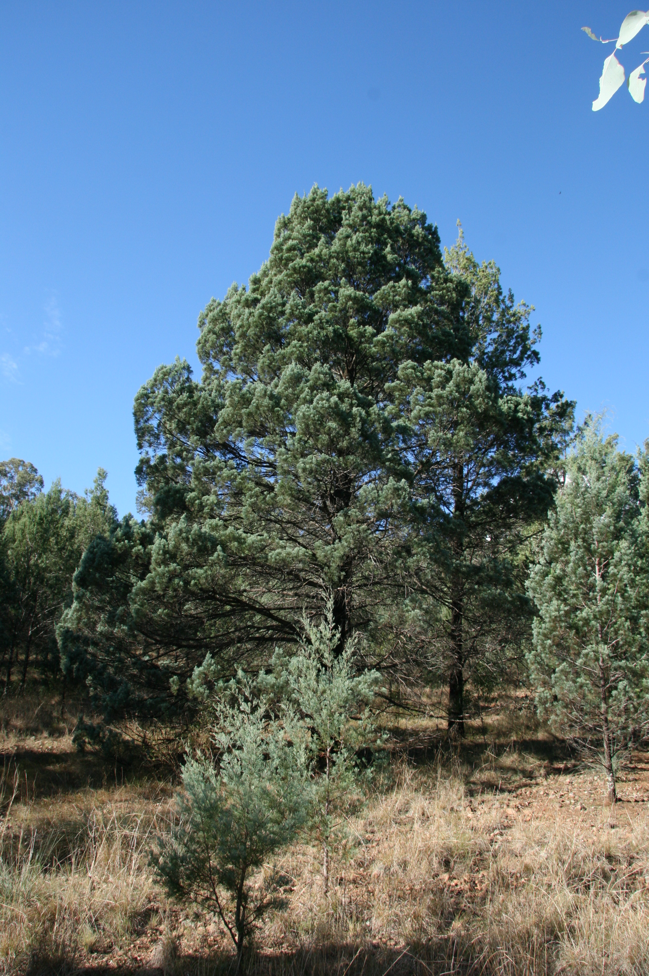 Callitris glaucophylla, Lake Keepit state recreation area, Lake Keepit